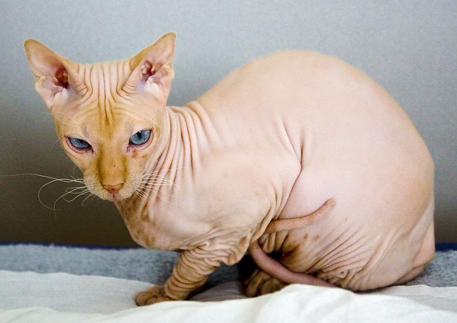 This pure breed Sphinx cat is Shabbat. Shabbat belongs to my sister in law who lives in Germany. Shabbat was born in Russia and brought to Germany as a kitten.